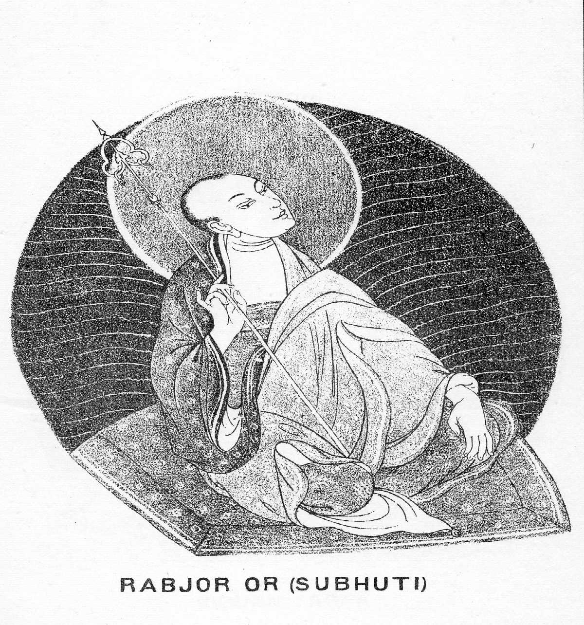 Image taken from a publication by Sarat Chandra Das (1849-1917), "Contributions on Tibet", in the Journal of the Asiatic Society of Bengal Vol. LI (1882), so it is in the public domain. John Hill 02:08, 24 September 2007 (UTC)